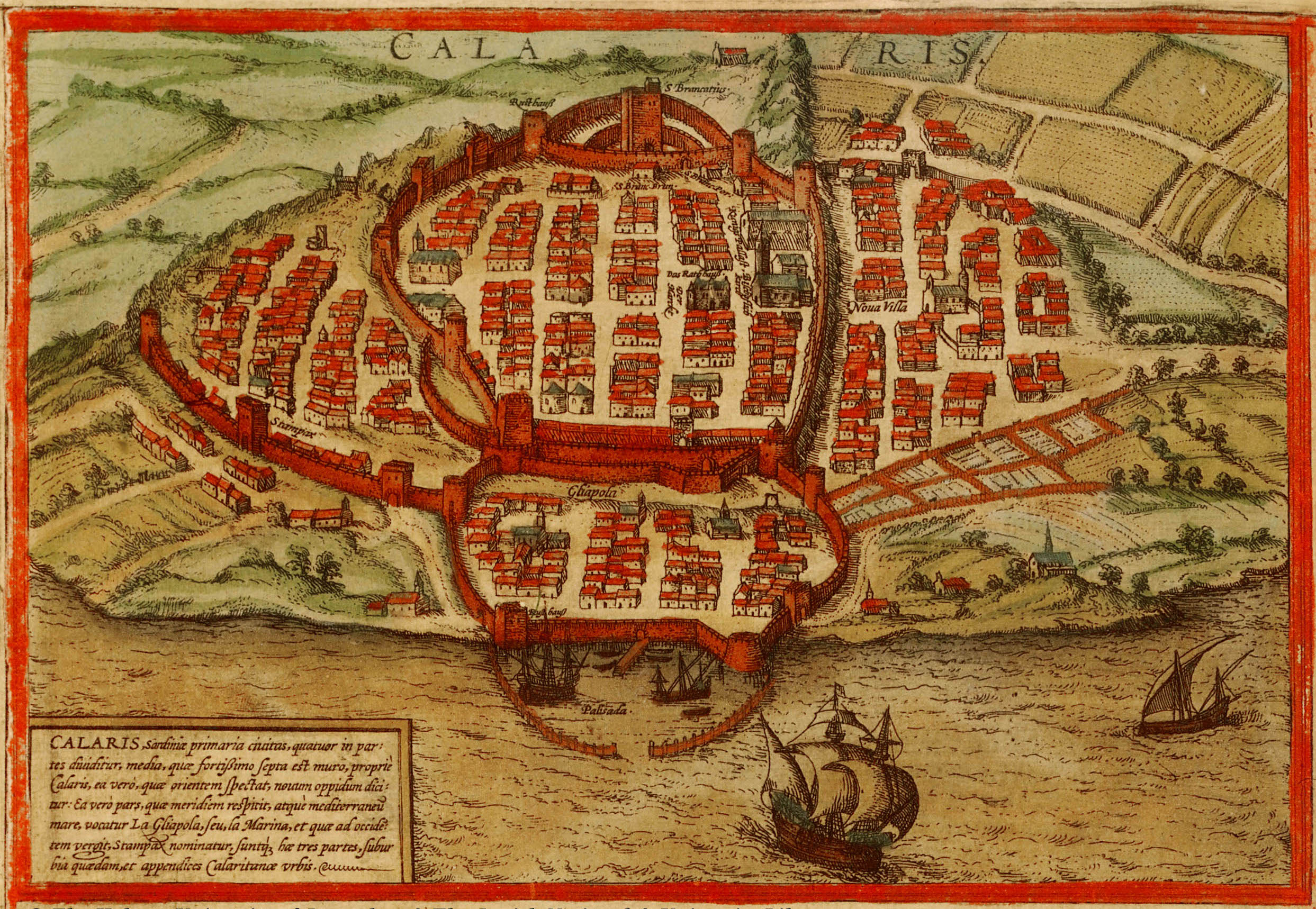 City of Cagliari, Sardinia Braun und Hogenberg:"Civitates orbis terrarum", Köln 1572 Downloaded from This Work is PD because of its age.